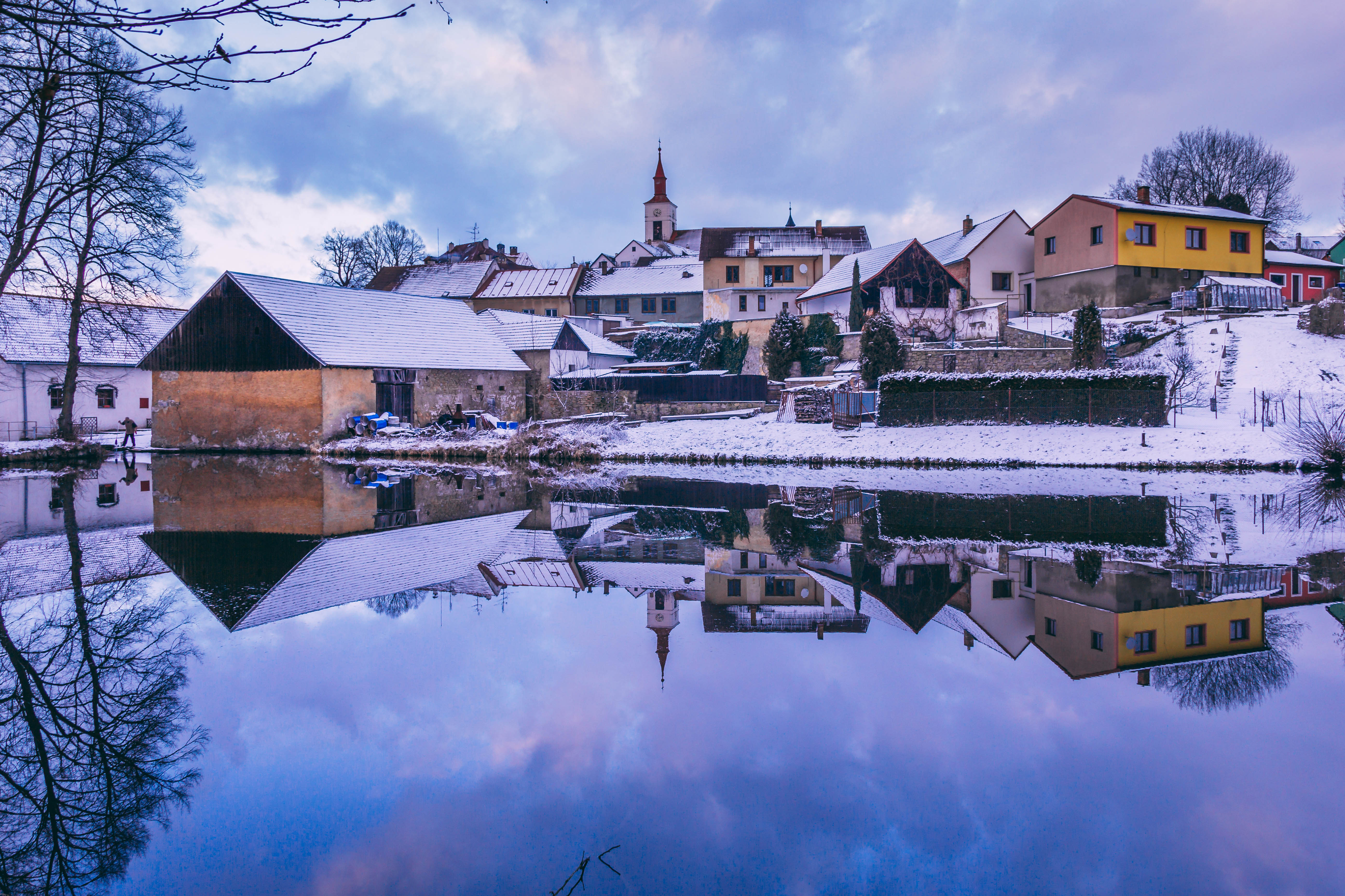 Strmilov